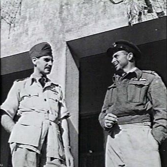 Wing Commander J. A. O'Neill (left) congratulates Pilot Officer Charles Crombie (right) on his success in shooting down two Japanese bombers and damaging a third over Calcutta on the night of 19 January 1943.